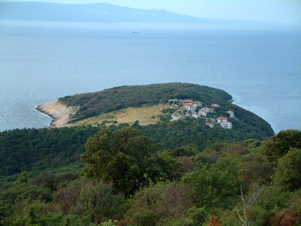 The Prklog peninsula and bay are protected area, Croatia. K. Korlević (Korlevic)